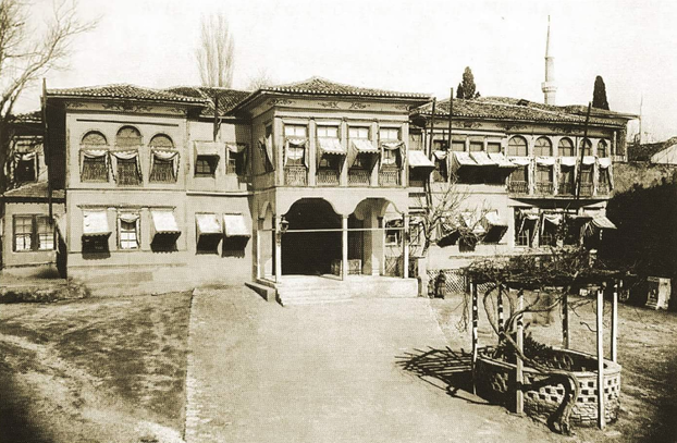 Thessaloniki old goverment house - before 1891 (also as per Χεκίμογλου, Ε., Danacioglu, E., 1998. Η Θεσσαλονίκη πριν από εκατό χρόνια : το μετέωρο βήμα προς τη Δύση, 1st ed, Άγνωστες εικόνες από την πολυ-πολιτισμική Θεσσαλονίκη, University Studio Press))